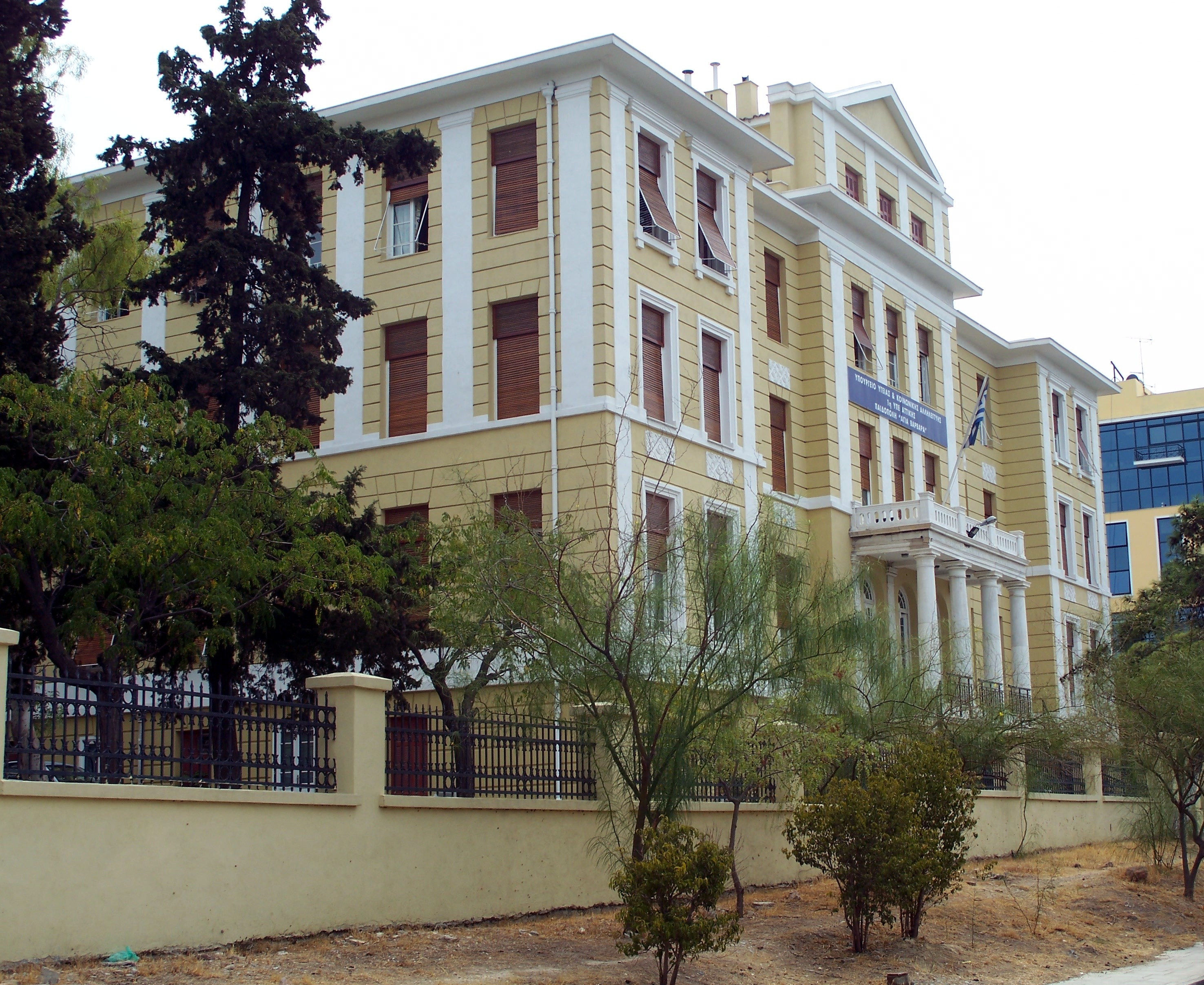 The Iosifogleion building, used as a child shelter since the 1930's, at Nea Smyrni in Athens.